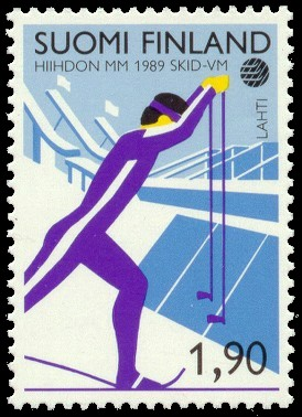 Postage stamp celebrating the 1989 World Championships in skiing, in Lahti